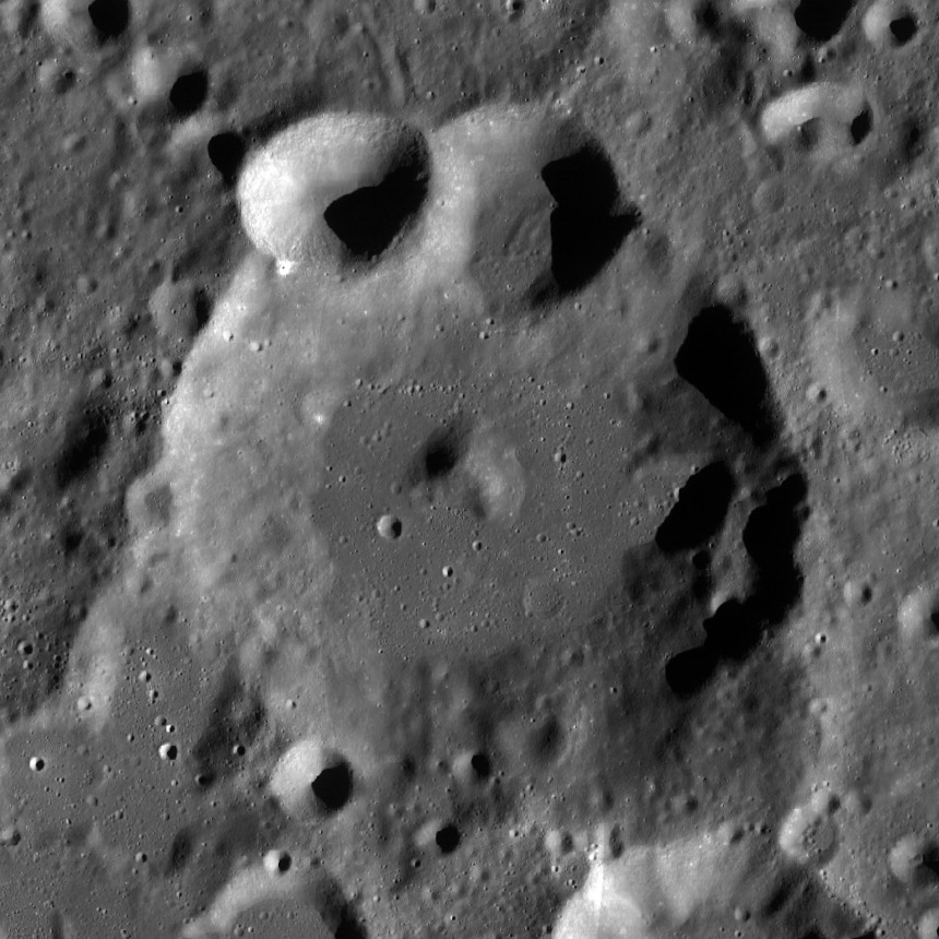 Kulik crater, on the far side of the moon. LRO Wide Angle Camera mosaic.